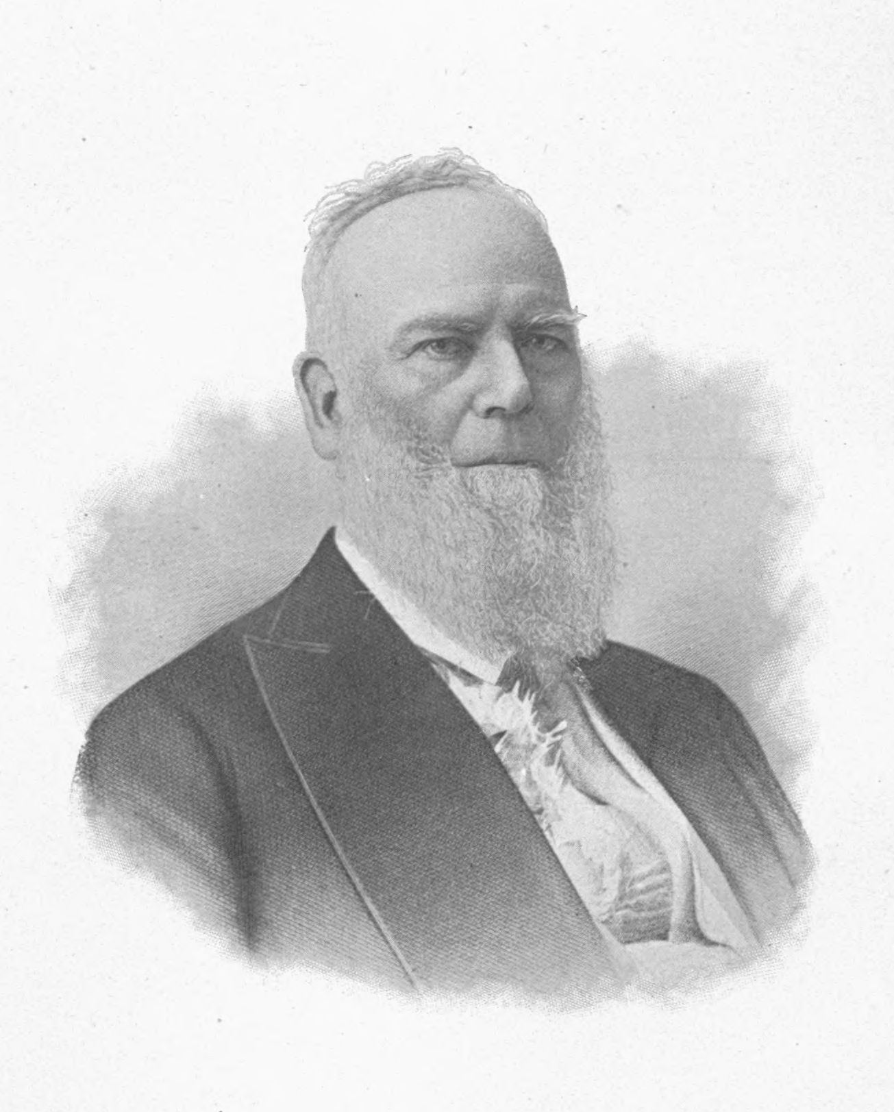 Portrait of John D. Caton, associate justice and chief justice of the Illinois Supreme Court.